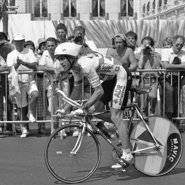 Greg LeMond (USA) starts the 21st and final stage of the 1989 Tour de France, a 24.5km TT from Versailles – Paris (Champs-Élysées).